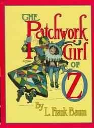 Cover of the Patchwork Girl of Oz